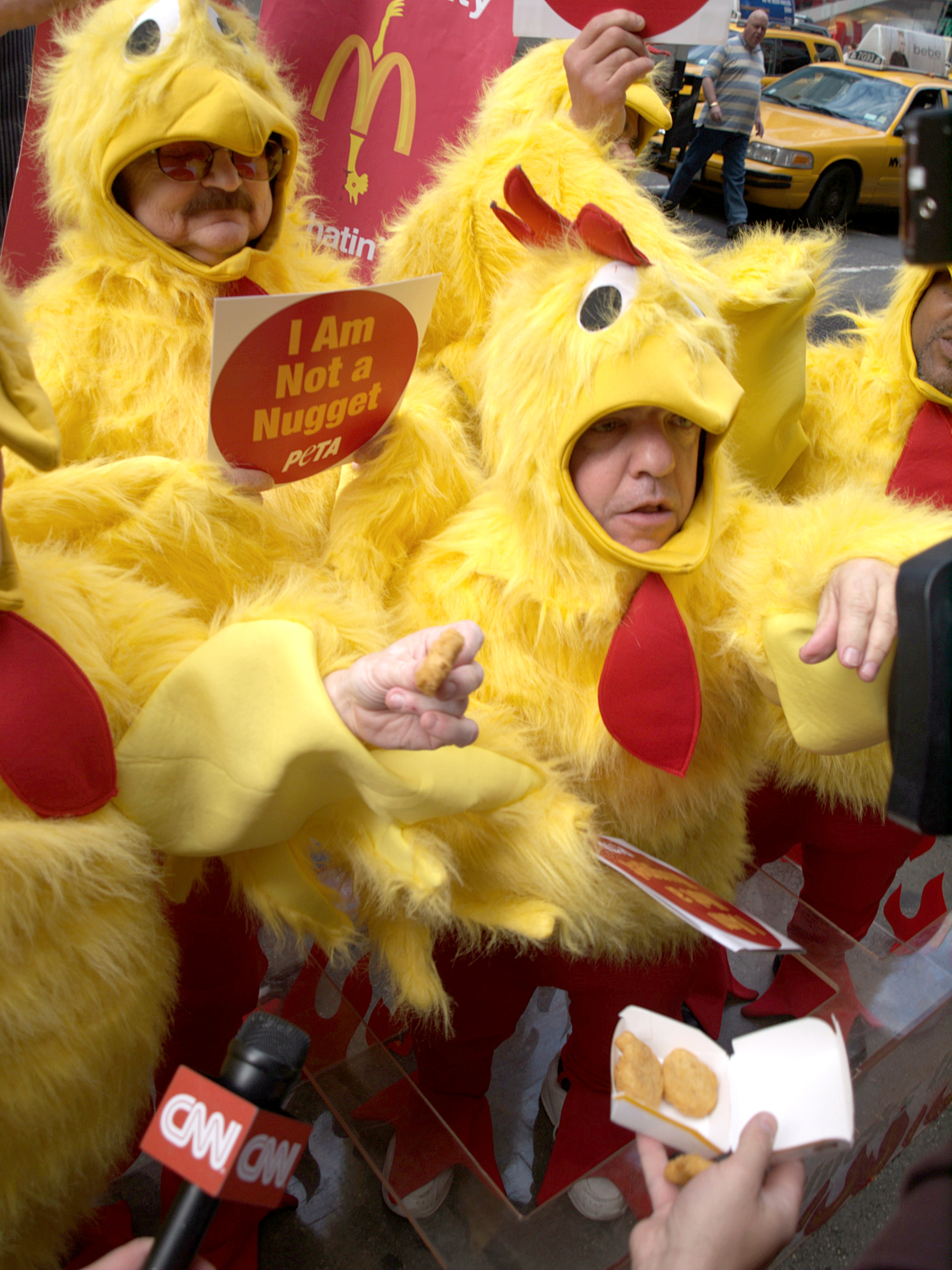 A troupe of little people in chicken suits flocked to McDonald's in Times Square brandishing signs declaring, "I Am Not a Nugget!"; The diminutive dancers from " Centerfold Strips—which bills itself as the number one source for midget and dwarf strippers—made their entrance in a pink stretch Mini Cooper and pounded the pavement in a choreographed musical protest against McDonald's slaughter practices.